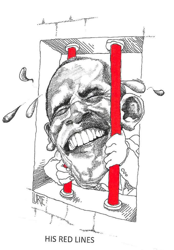 His red lines, by Ranan Lurie, Line & watercolor. Drawn after a chemical weapon attack by Syrian regime, that crossed the red line of US president, Barack Obama "הקווים האדומים שלו", מאת רענן לוריא. צוירה לאחר מתקפת נשק כימי של המשטר בסוריה, שחצתה את הקו האדום שקבע נשיא ארצות הברית, ברק אובמה